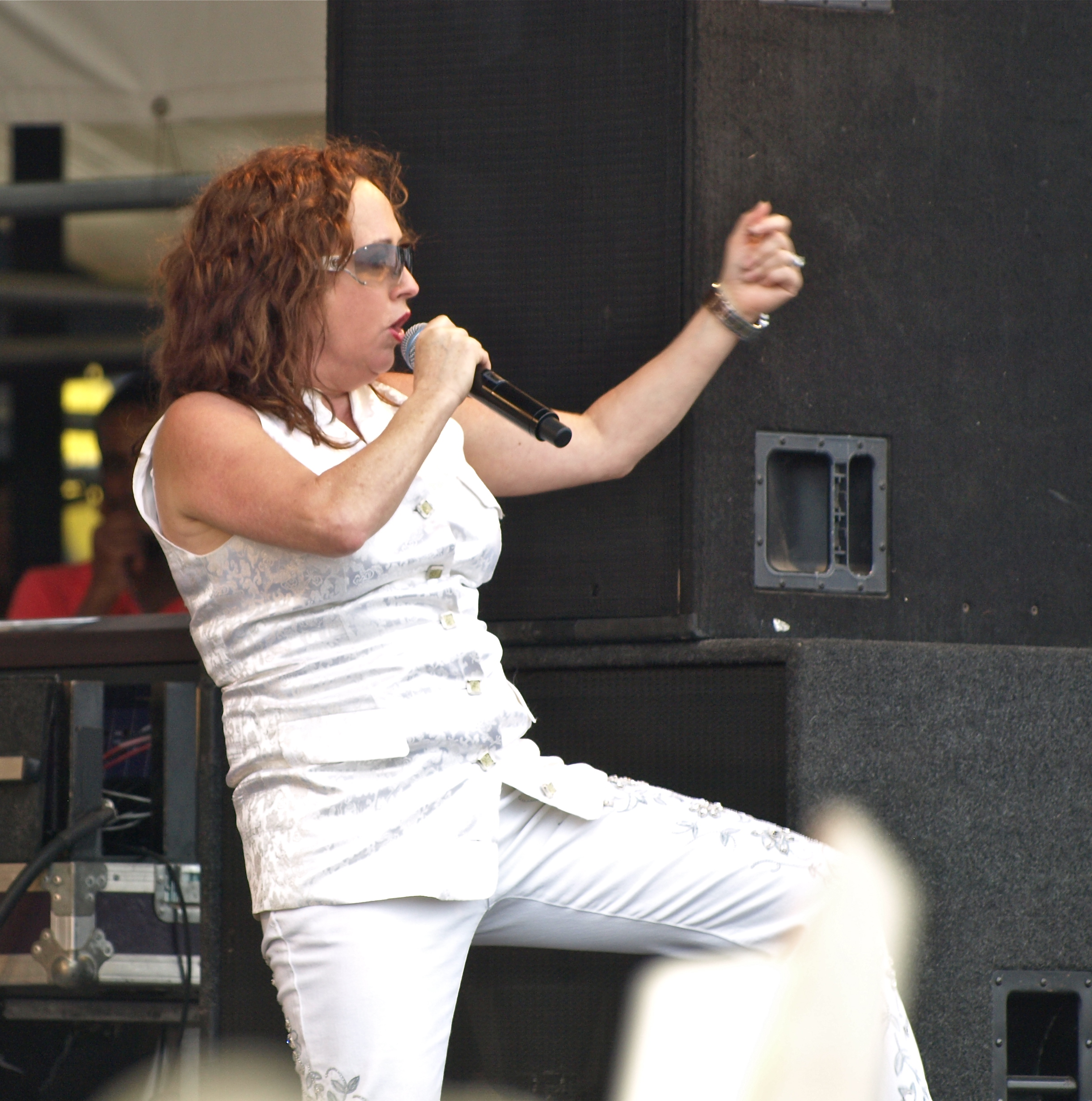 Singer Teena Marie performing